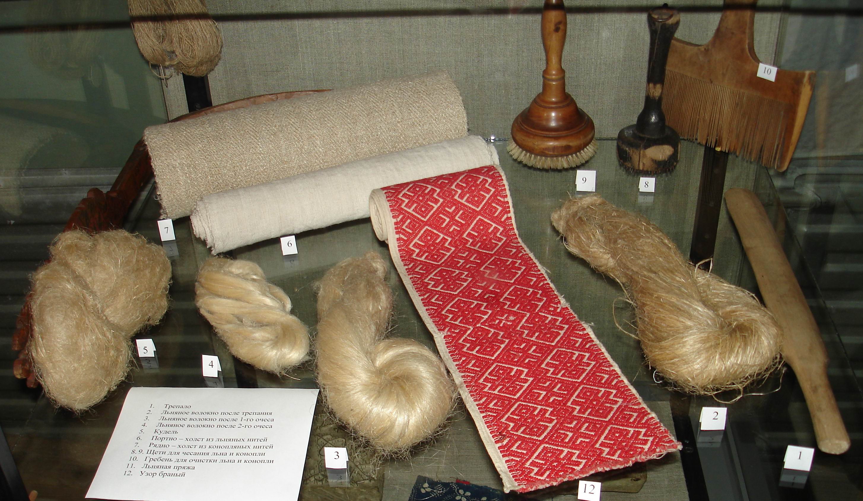 Flax: ancient Russian instruments and the fact that they were made (Booth Pinezhsky Museum): 1-beater, 2-fiber after scutching Llano, Llano 3-fiber tow after the first 4-Llano after the second fiber tow, tow 5, 6 -Taylor (canvas threads from Llano), 7 - row (from hemp canvas threads), 8, 9 - Brushes for Sanchez flax and hemp, 10-comb for cleaning flax and hemp, 12, abusive pattern. Photo 3 November 2006.